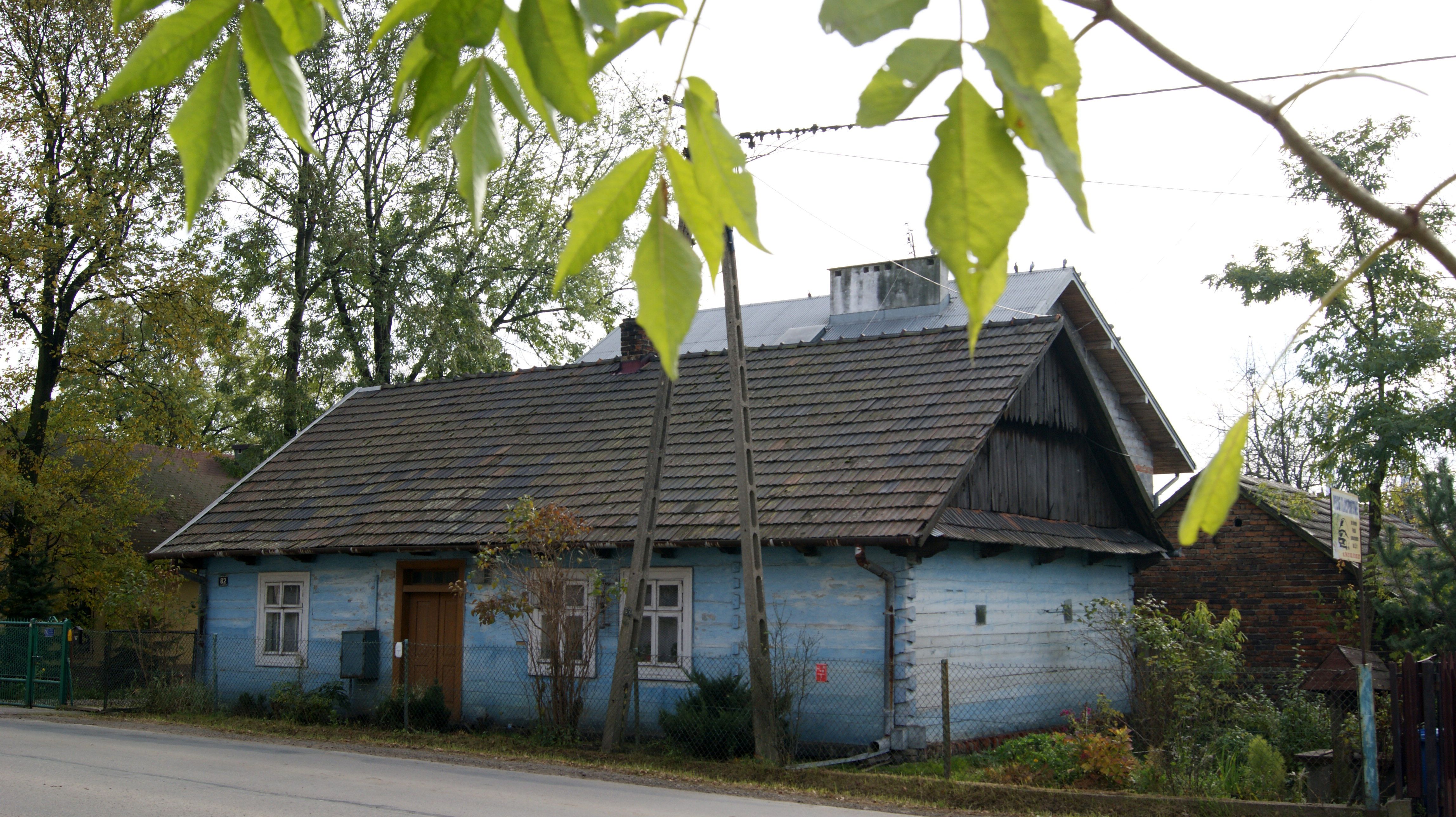 Old cottage, Lubocza,Nowa Huta,Krakow,Poland